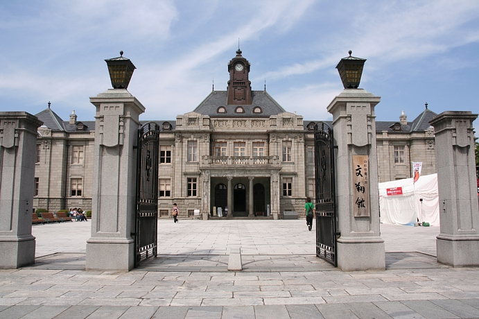 Bunshōkan (Yamagata Prefectural Former Office, Yamagata City, Yamagata Prefecture, Japan.)